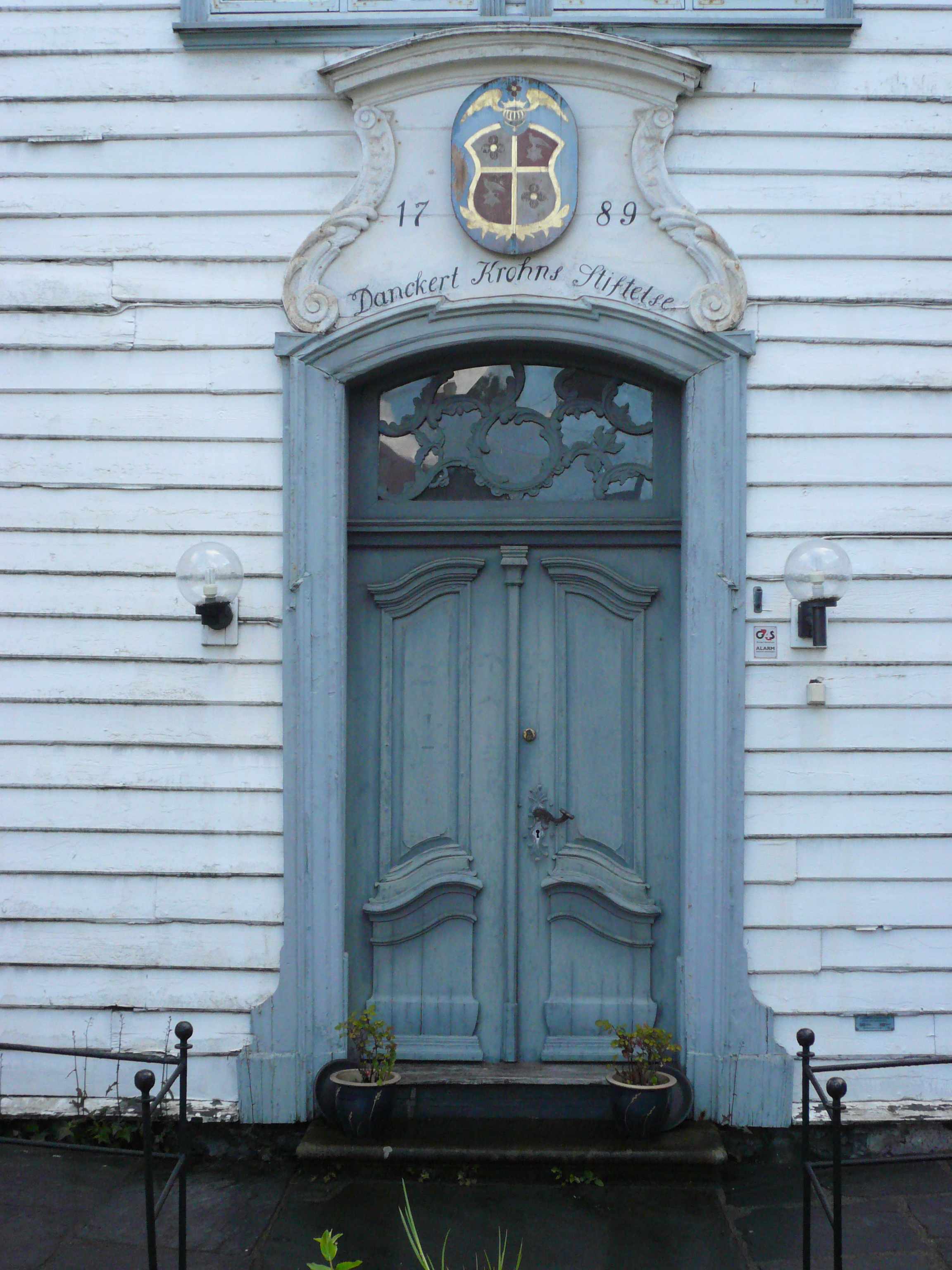 Portal at Danckert Krohns stiftelse (1789).